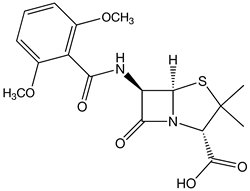 Methicillin